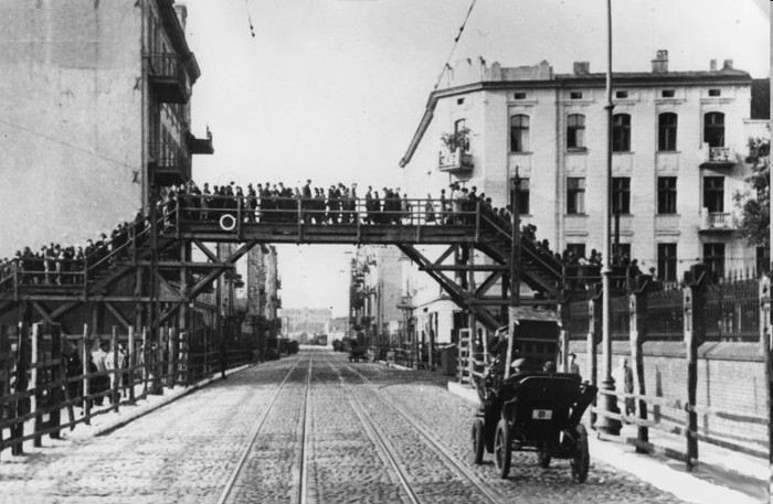 The footbridge over Zgierska Street that joined the two parts of the Lodz ghetto. The street itself was not part of the ghetto. Lodz, Poland, ca. 1941.